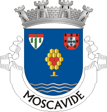 Ancient crest of Moscavide parish, Loures municipality (Portugal) Made by User:Brian Boru, based on a crest of Sérgio Horta